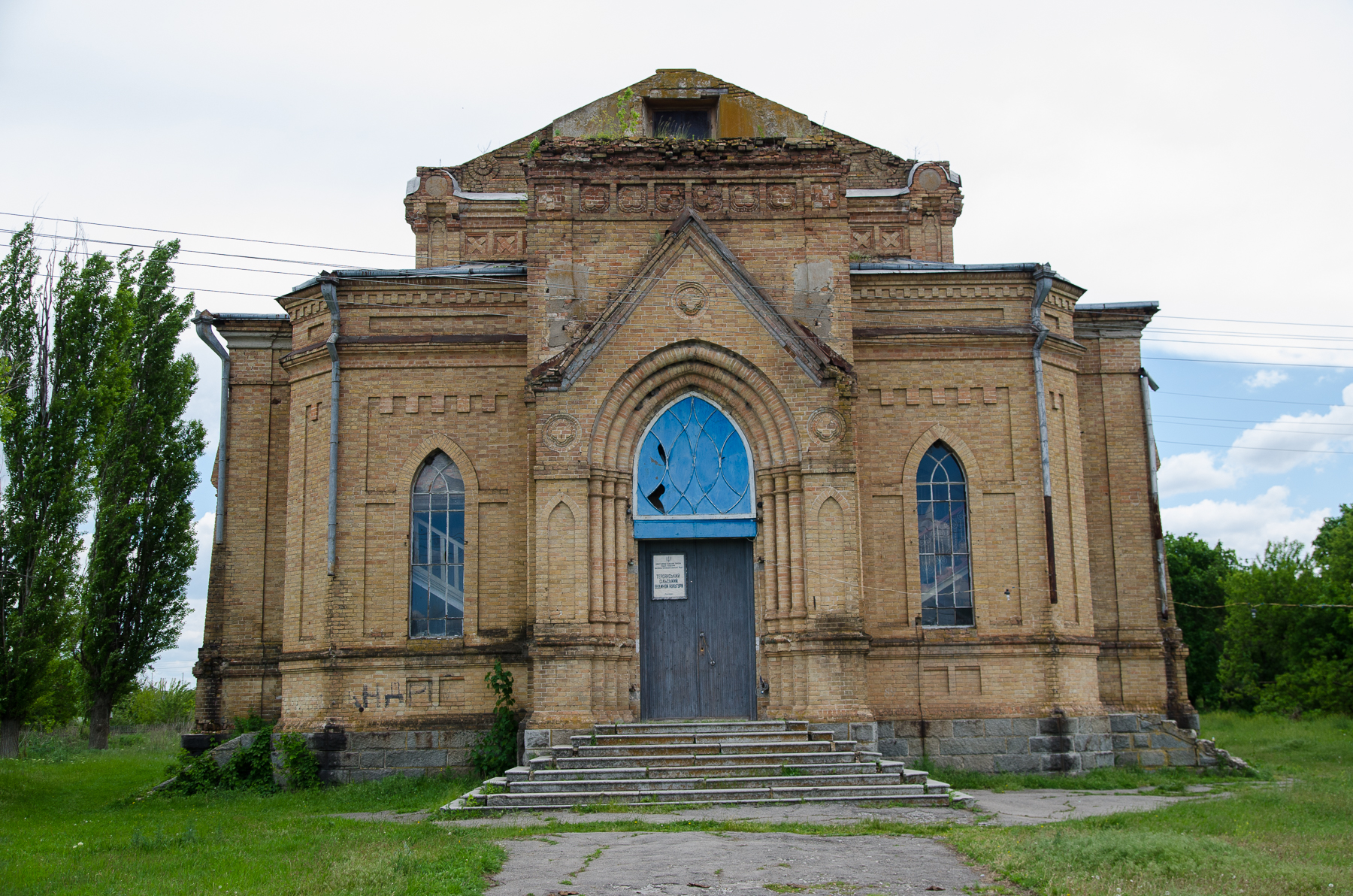 Kirche in Tersianka, Zaporizhzhia Oblast, Ukraine